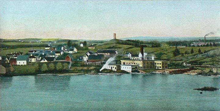 Pittsfield, Maine -- looking North; from a 1905 postcard.